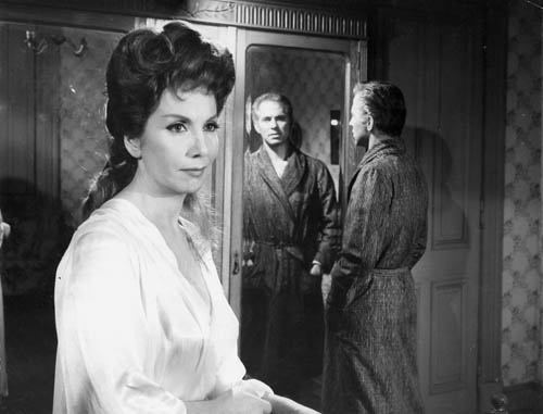 Eva Dongé y Jorge Barreiro en Castigo al traidor- película argentina